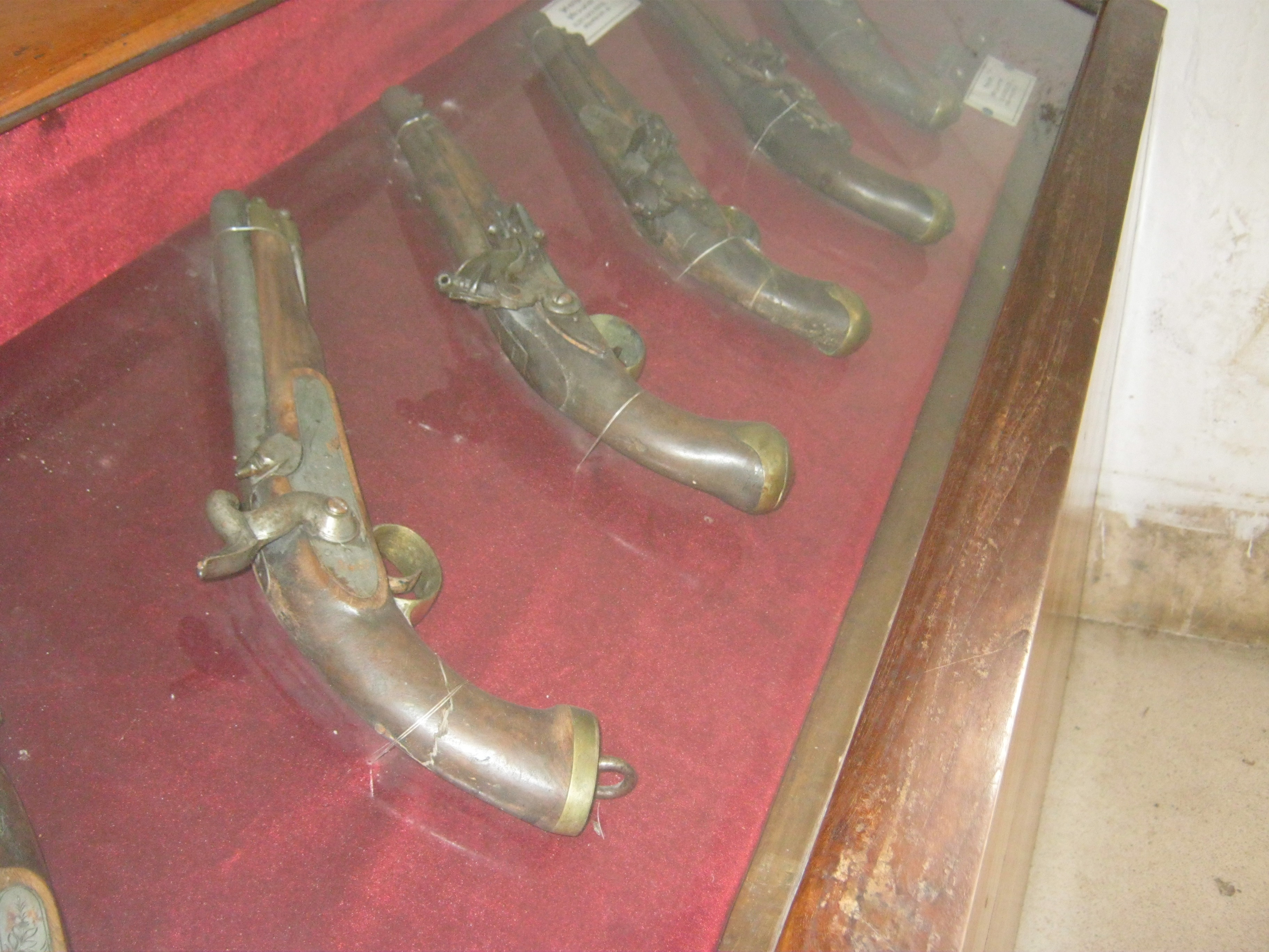 লালবাগের কেল্লা